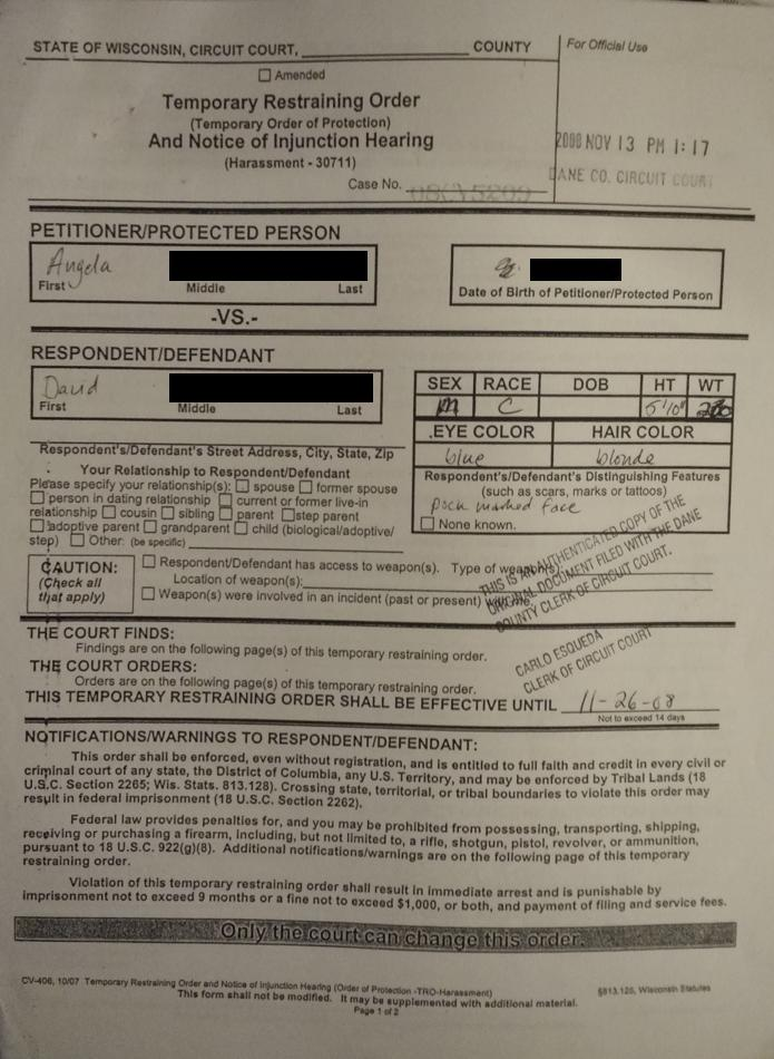 Temporary Order of Protection